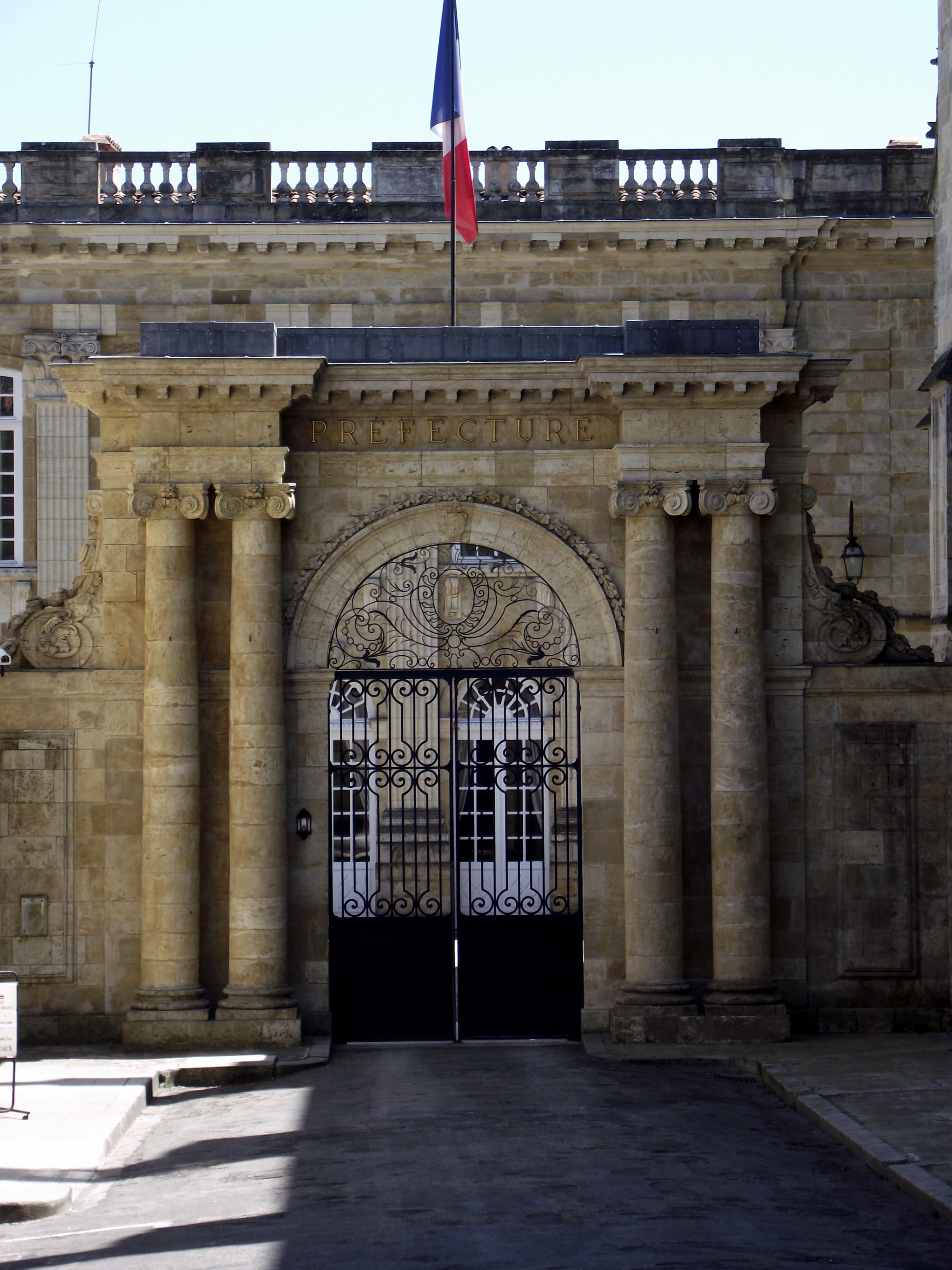 Prefecture of Gers (Auch, France).